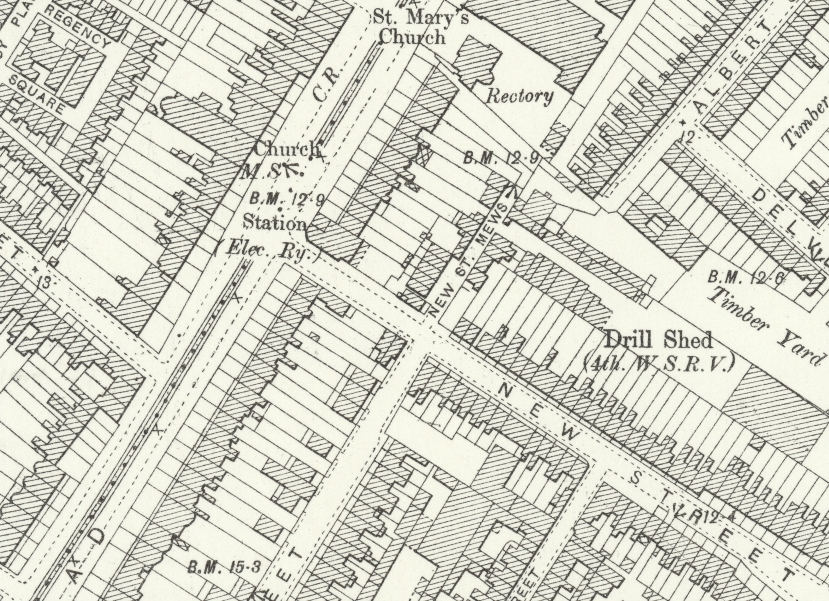 Kennington tube station at the junction of Kennington Park Road and New Street (now Braganza Street) in Southwark on an Ordnance Survey Map.